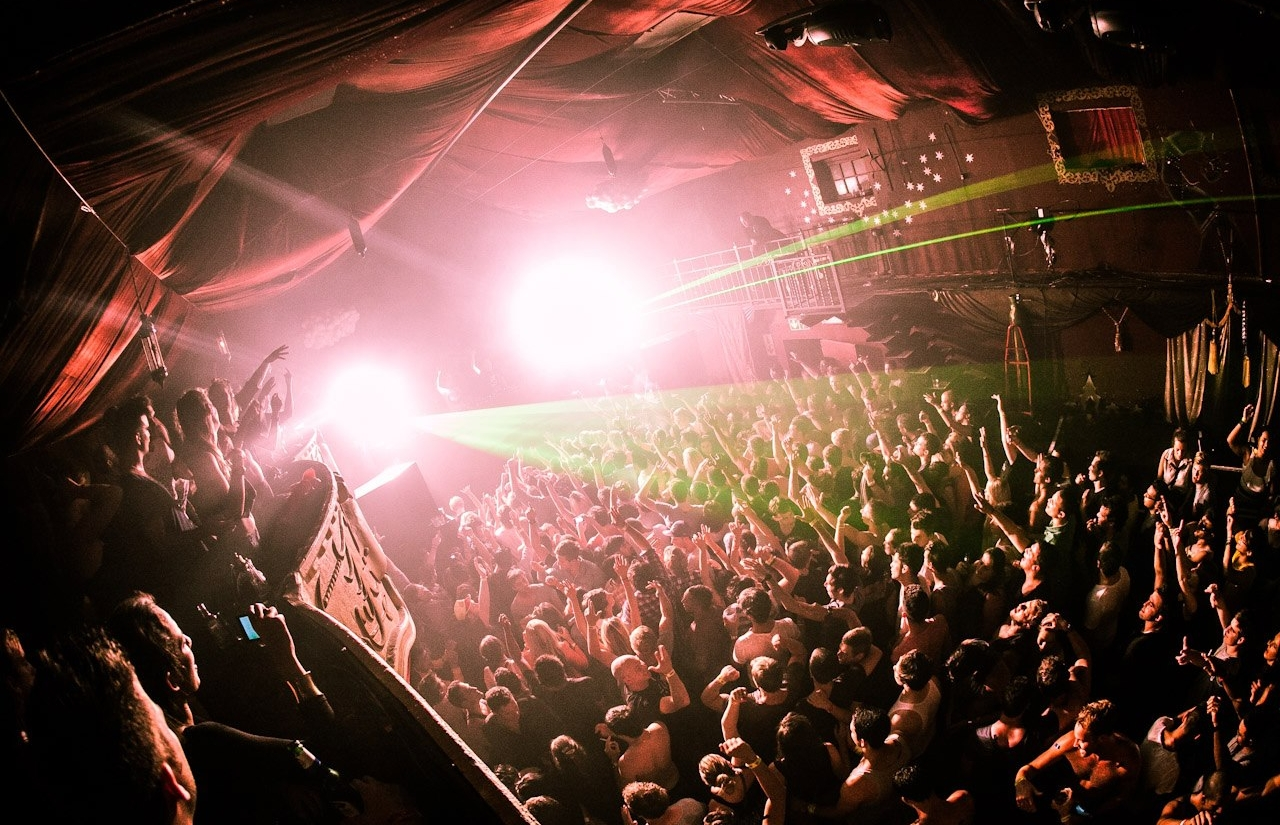 The Side Show in Cape Town's main dance floor